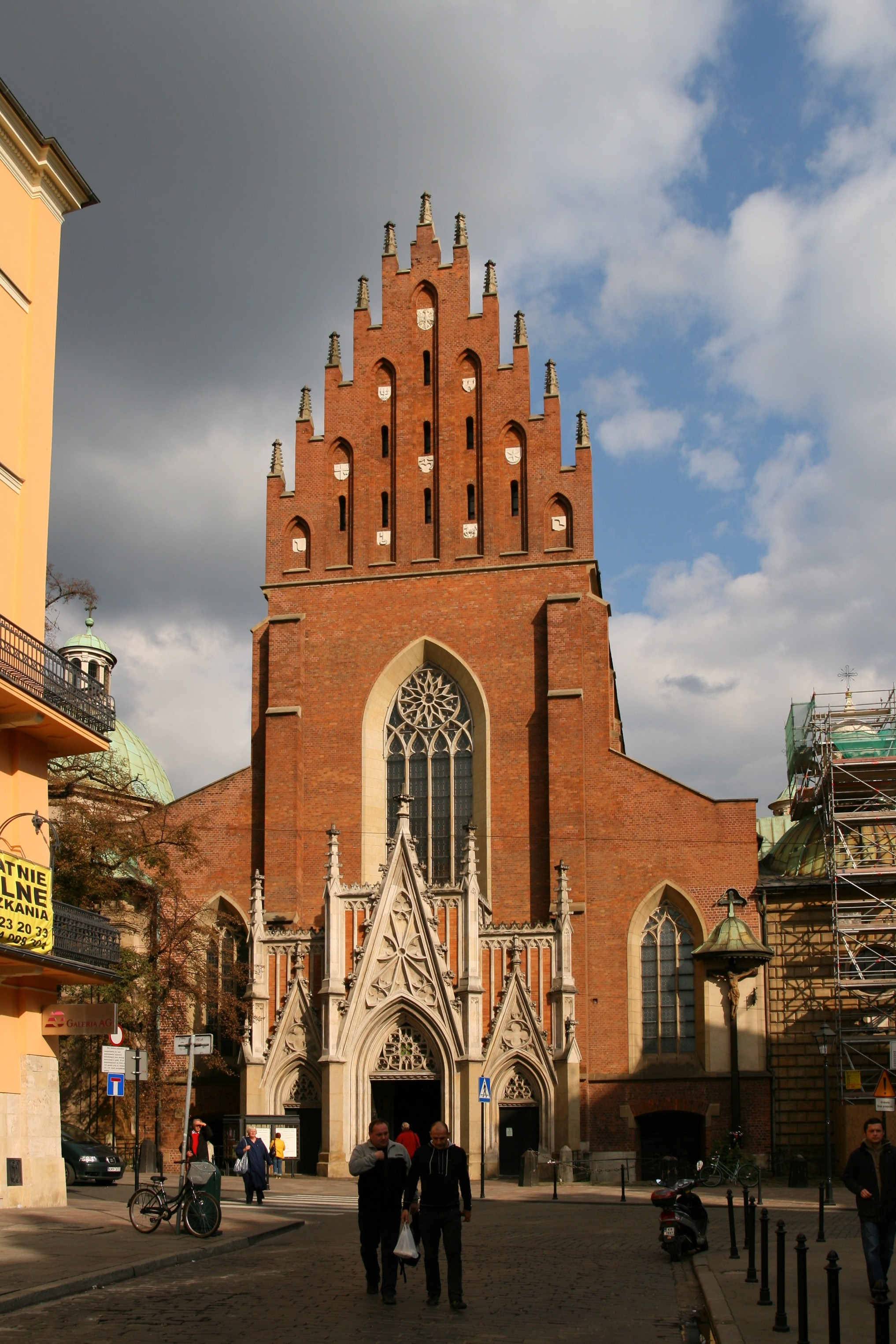 Trinity Church in Kraków (Poland).